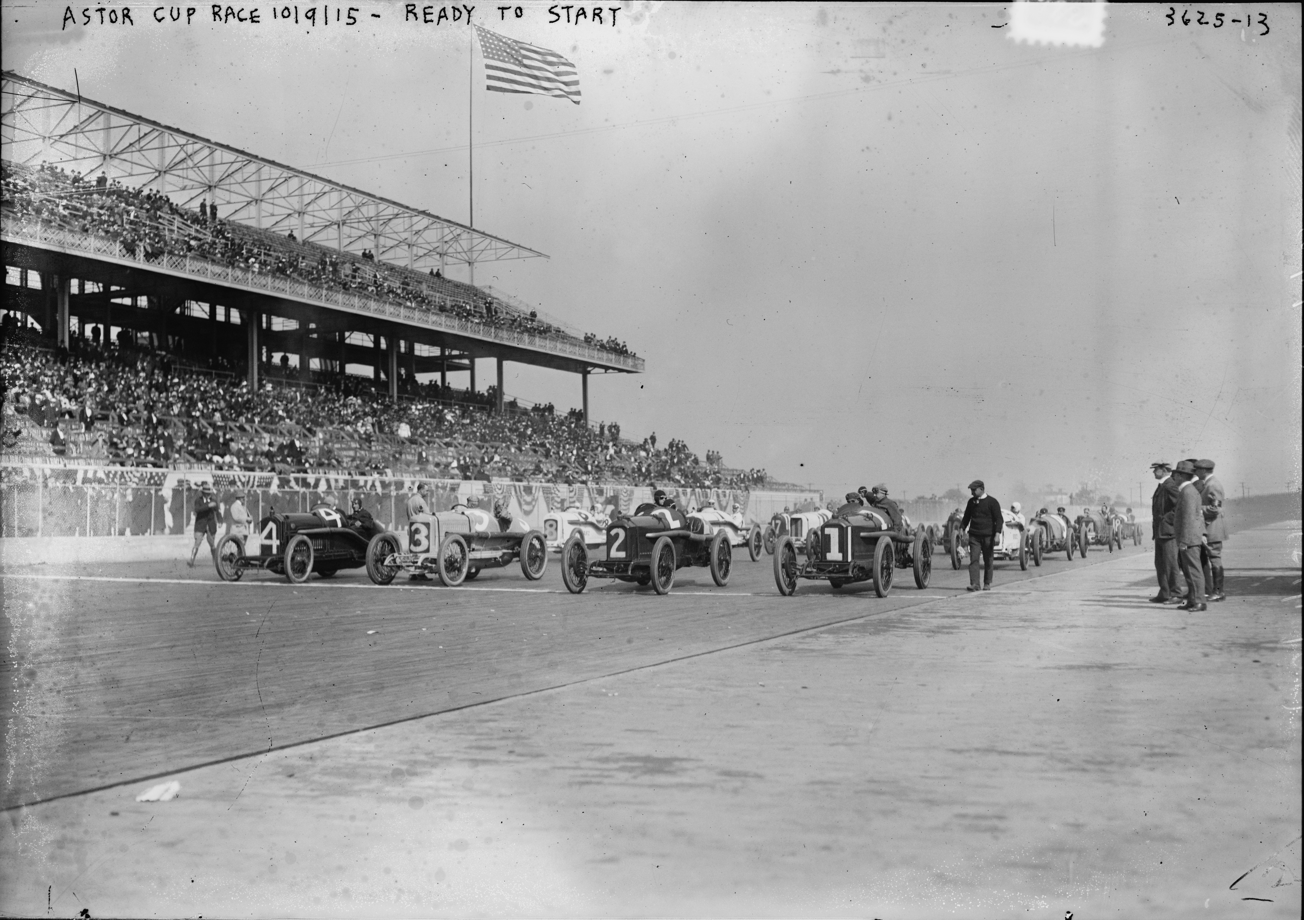 Astor Cup race, 10/9/15, ready to start (LOC). Race held at Sheepshead Bay Race Track. Bain News Service,, publisher. Astor Cup race, 10/9/15, ready to start 10/9/15 (date created or published later by Bain) 1 negative : glass ; 5 x 7 in. or smaller. Notes: Title from unverified data provided by the Bain News Service on the negatives or caption cards. Forms part of: George Grantham Bain Collection (Library of Congress). Format: Glass negatives. Repository: Library of Congress, Prints and Photographs Division, Washington, D.C. 20540 USA, General information about the Bain Collection is available at Higher resolution image is available (Persistent URL): Call Number: LC-B2- 3625-13